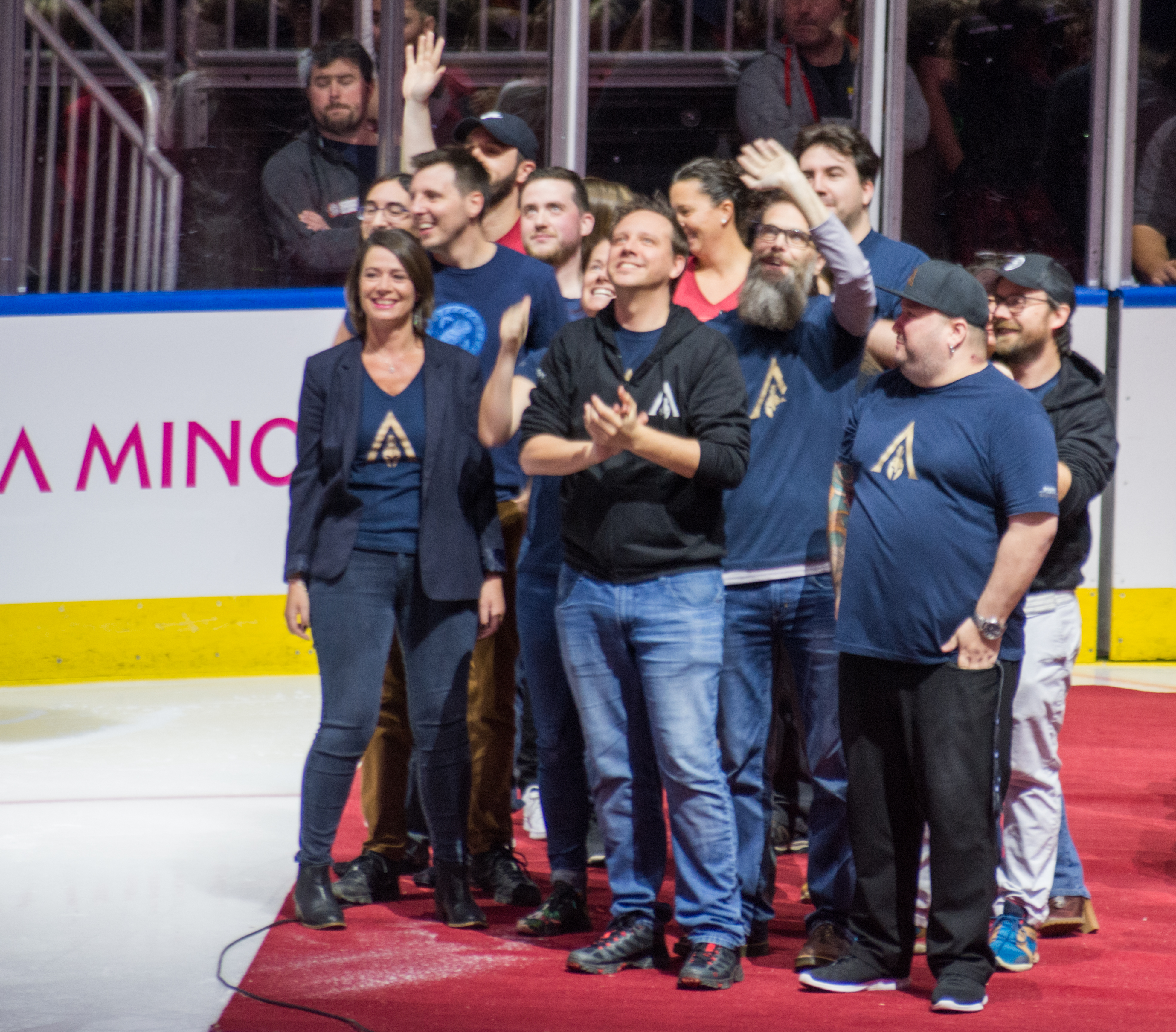 Ubisoft developper team of Assasians creed on Quebec Remparts vs Titan d'Acadie-Bathurst on Centre Vidéotron, Québec city